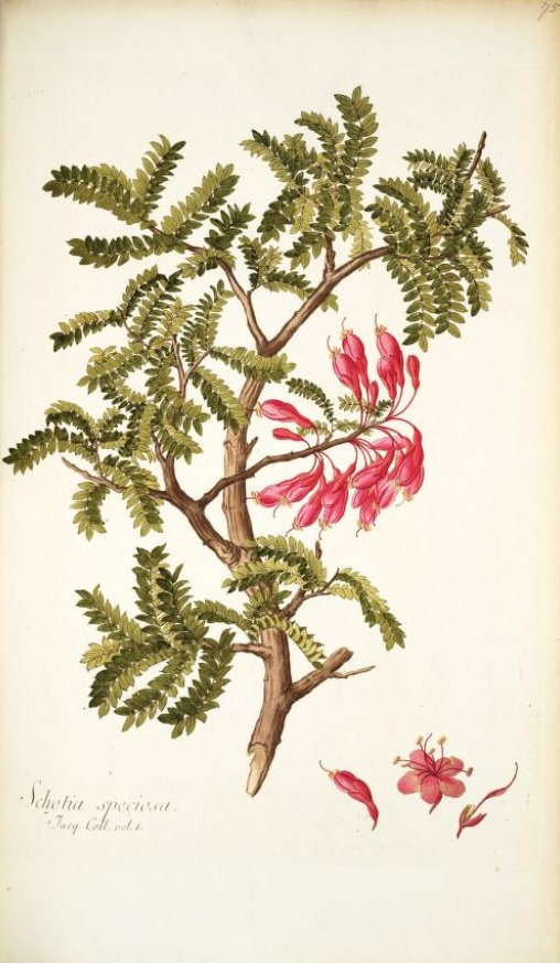 Illustration of Schotia afra (Orig. Schotia speciosa)